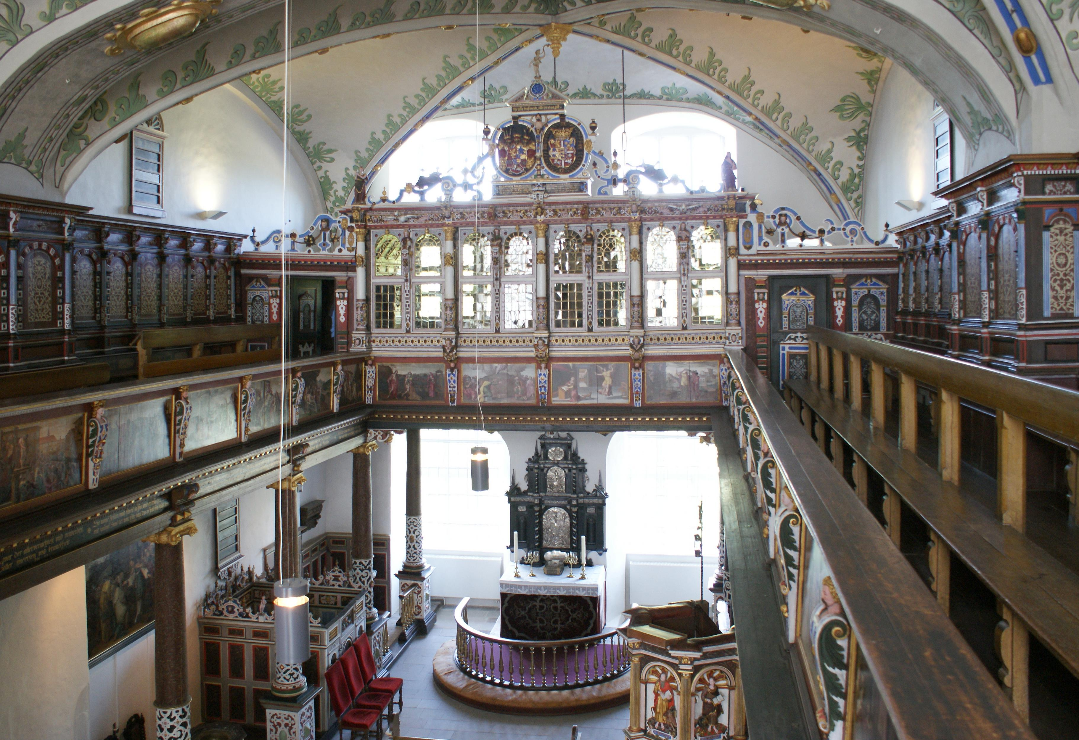 Thr Chappel at Gottorf Castle